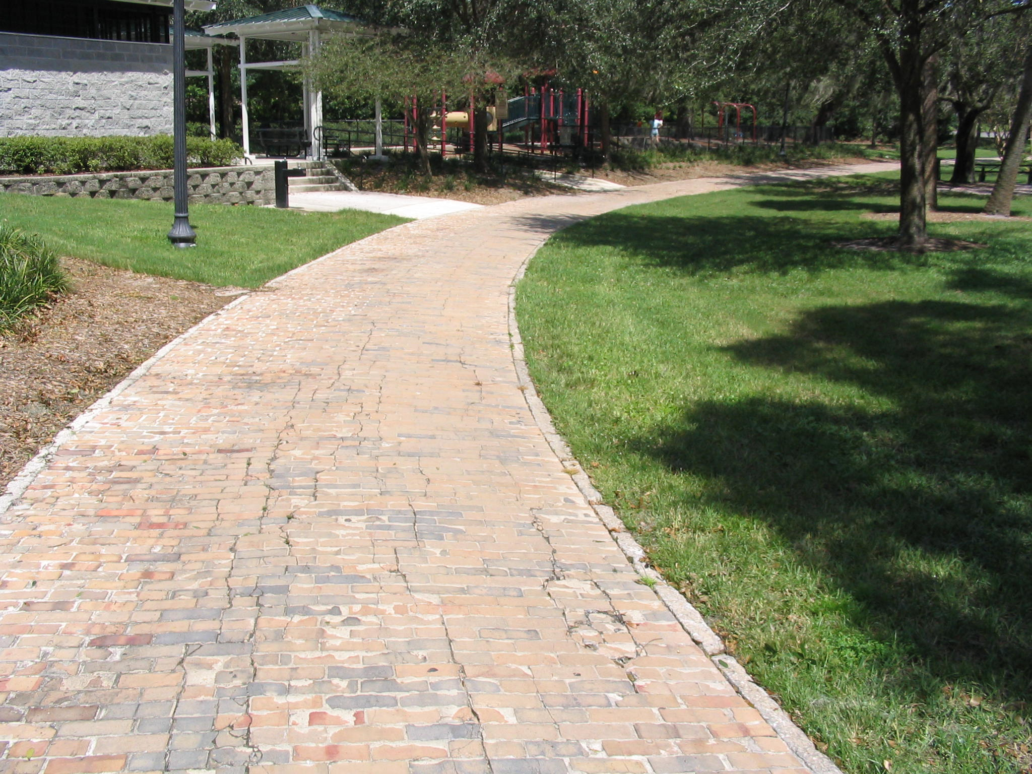 A brick section of the old Dixie Highway East Florida Connector (SR 3) on the west side of Lake Lily in Maitland, Florida. It was built in 1915 or 1916, paved over at some point, and restored in 1999. Photo taken September 11, 2004 by User:SPUI.